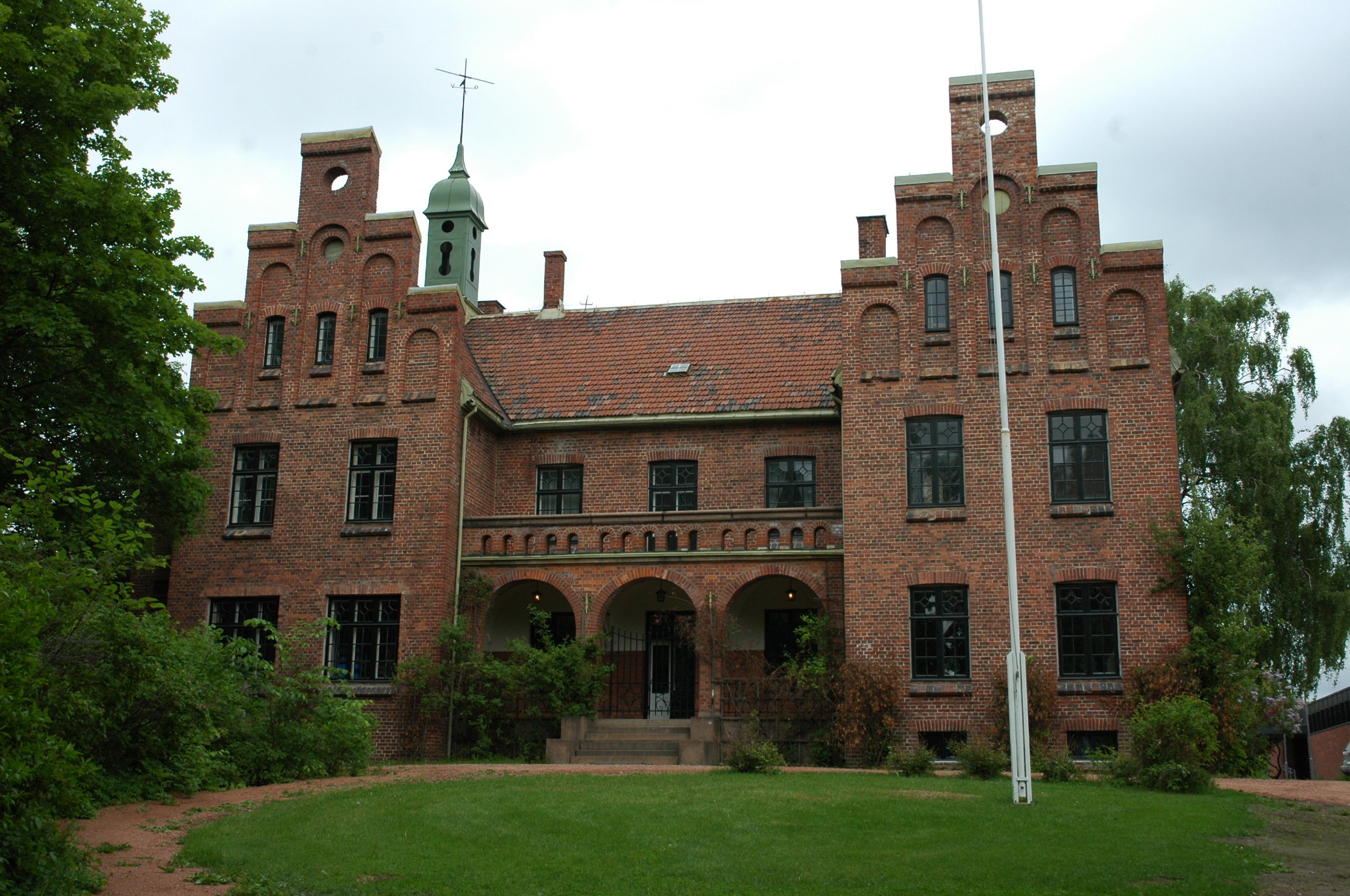 The original castele at Ringstabekk in Baerum, Norway